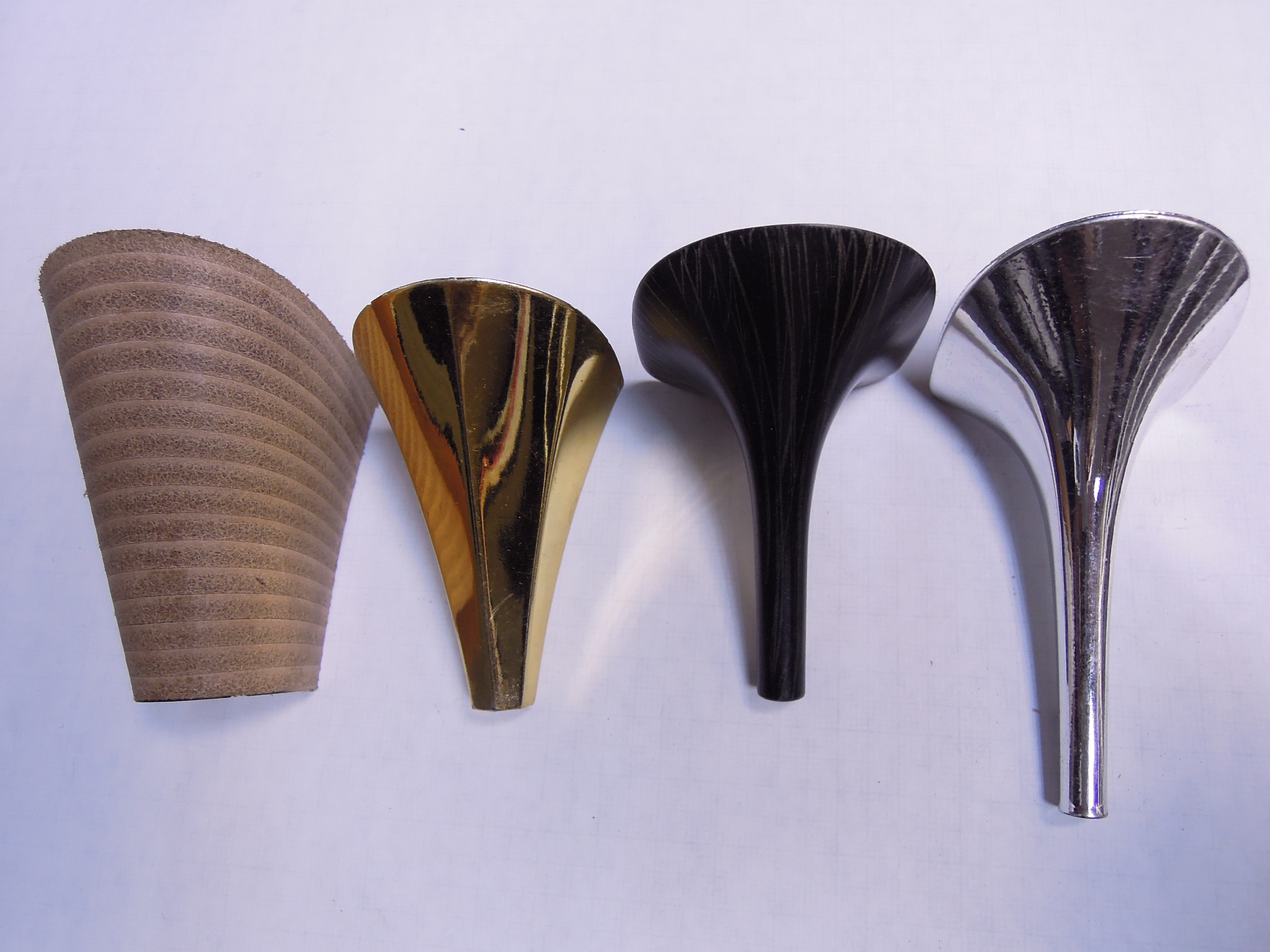 Heels for female shoes.